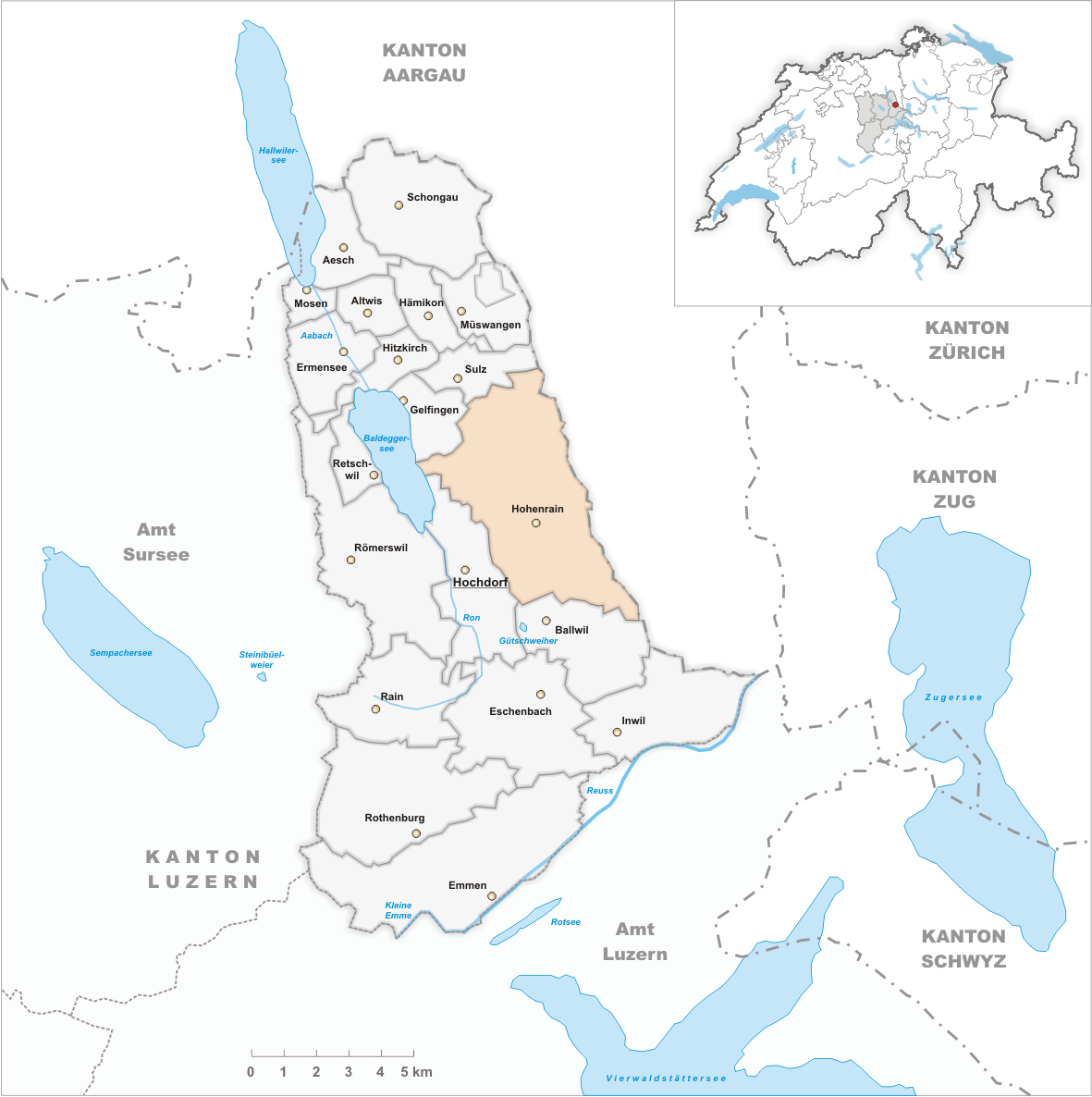 Municipality Hohenrain